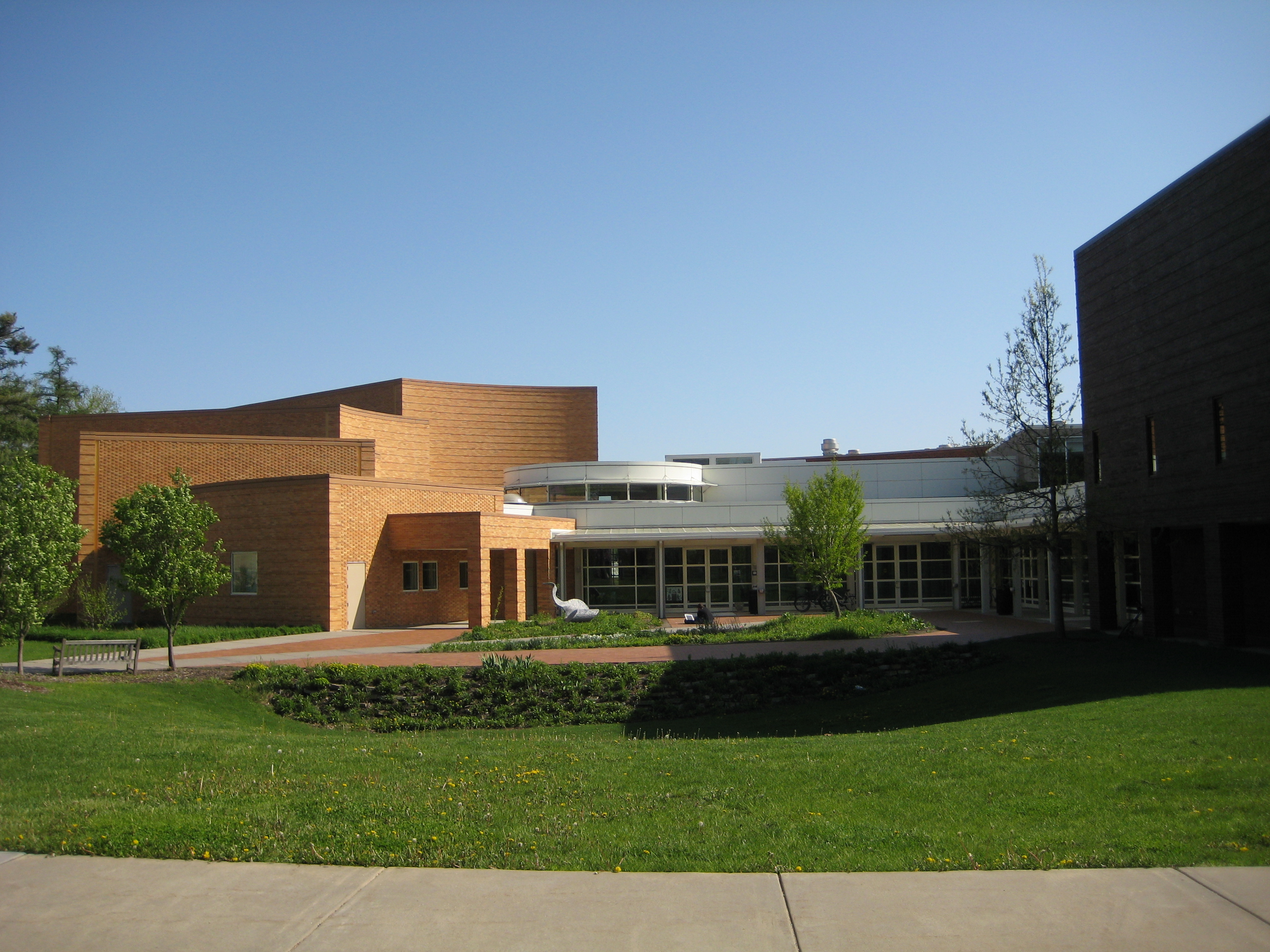 Grinnell College's Bucksbaum Center for the Arts